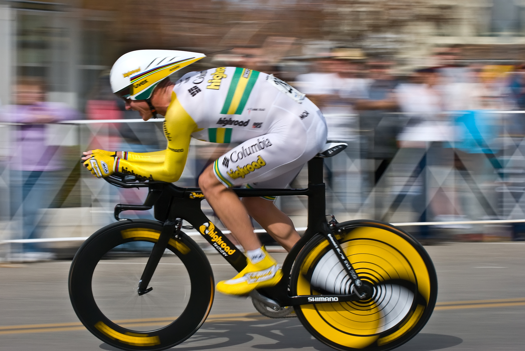 Michael Rogers, Tour of California 2009. Third place finisher overall from Columbia Team High Road shown during the Solvang time trial from curbside in Los Olivos, 2-20-2009